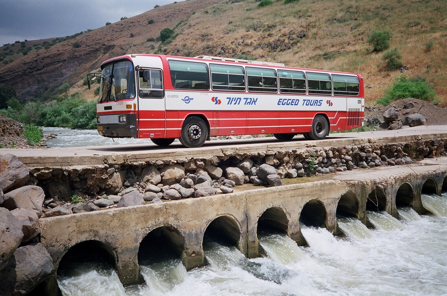 Egged bus in Jordan river; Israel, 1992